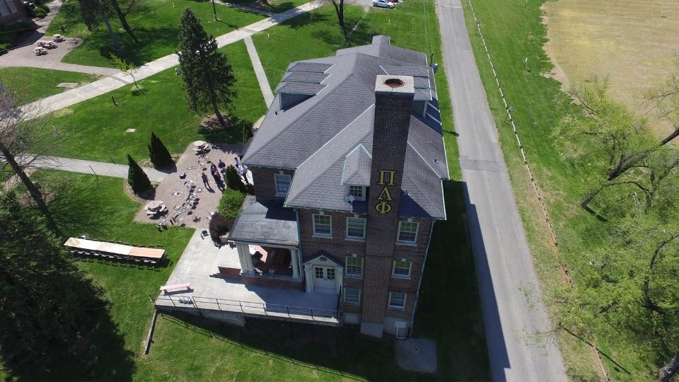 This is the Pi Lambda Phi house at Roanoke College.